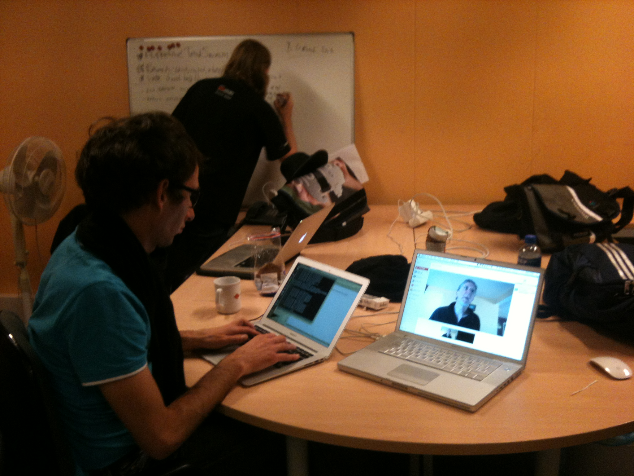 Wikimedia Nederland office